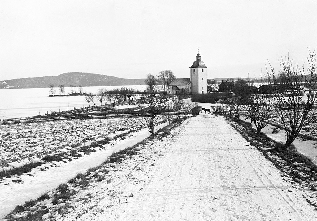 Köla church by lake Hugn. The church was built around 1700. Köla kyrka vid sjön Hugn. Kyrkan byggdes omkring 1700. Parish (socken): Köla Province (landskap): Värmland Municipality (kommun): Eda County (län): Värmland Photograph by: Unknown Date: c. 1900 Format: Print Persistent URL: Read more about the photo database (in english)